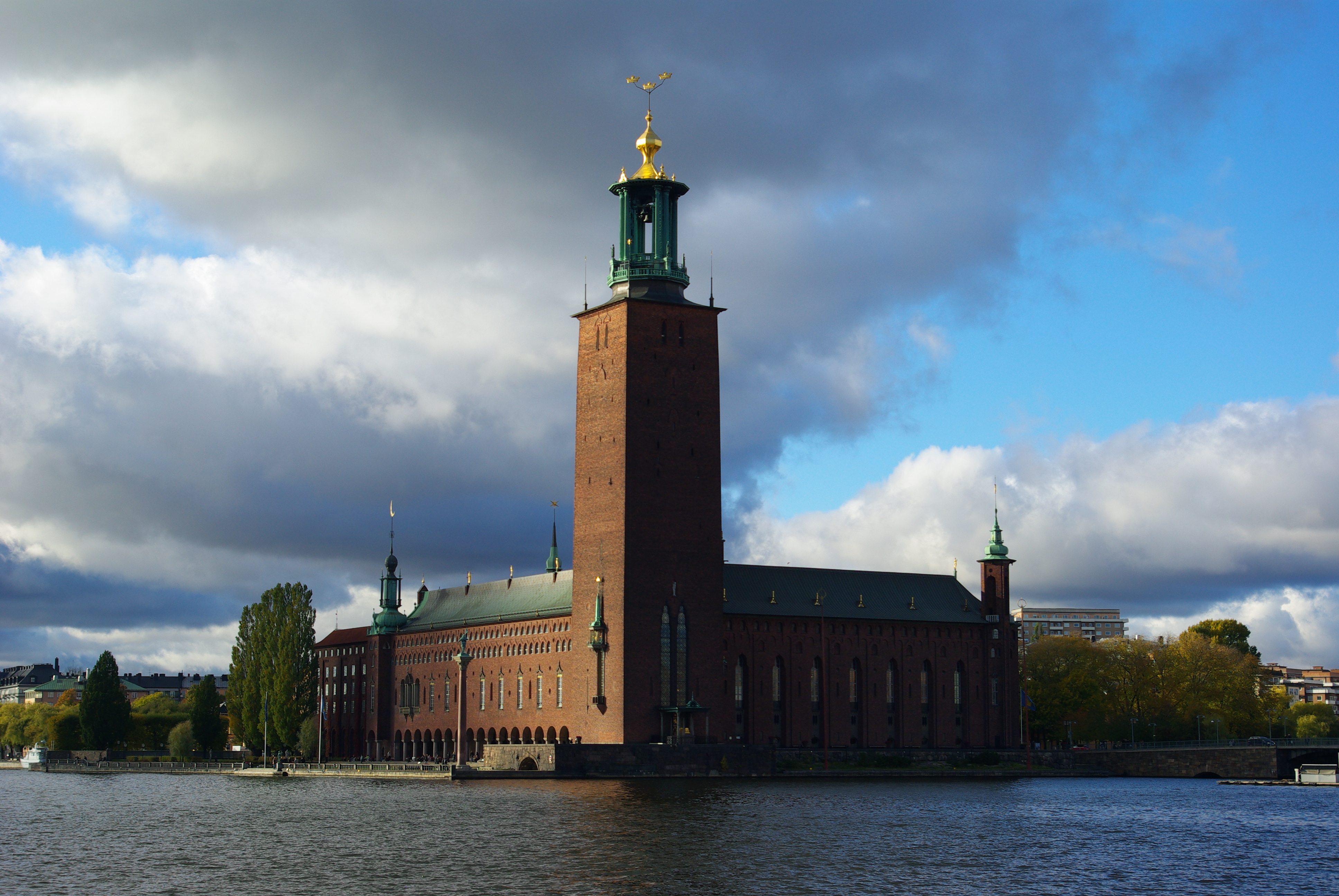 Stadshus Stockholm